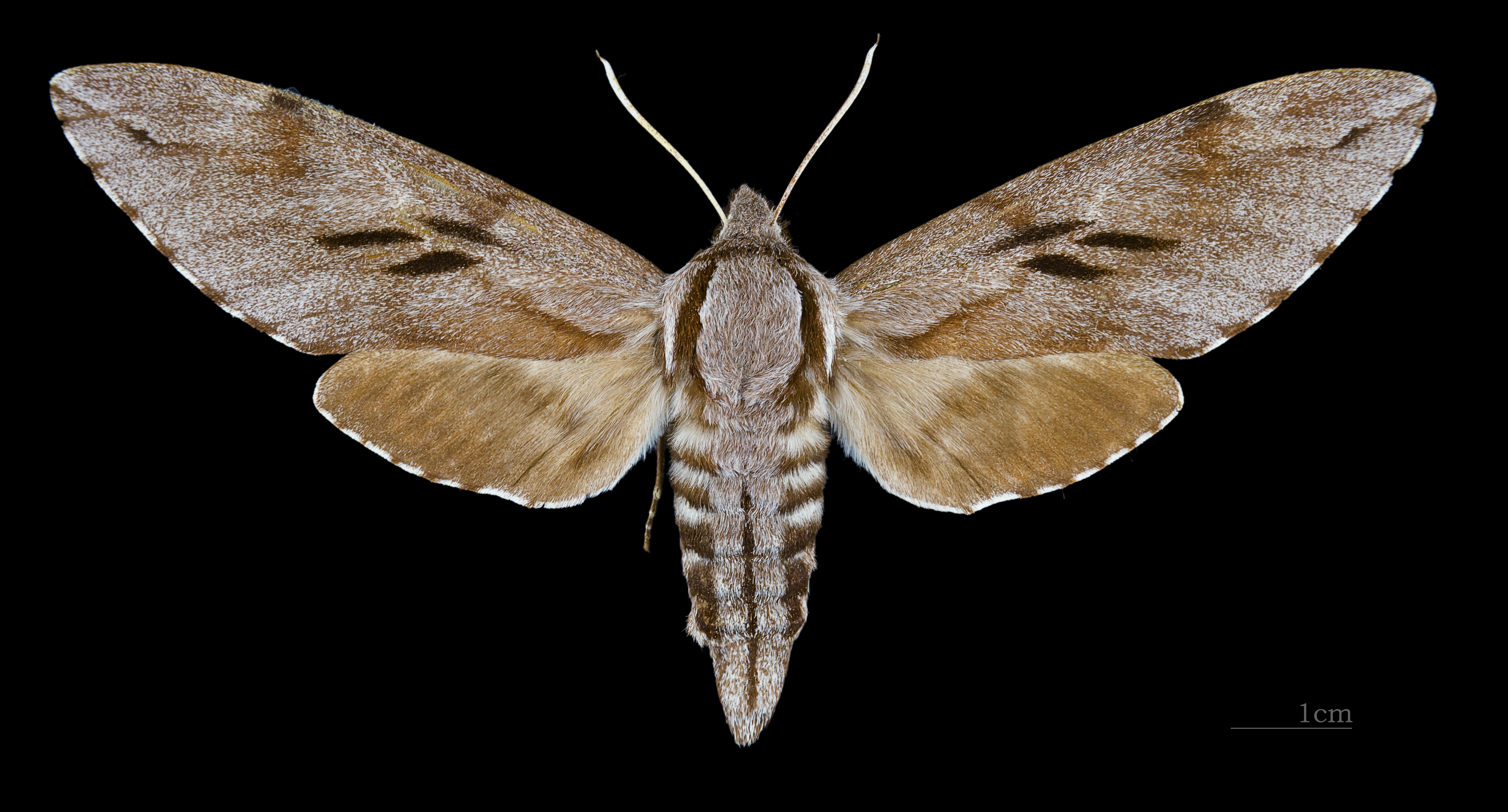 Hawk-moth - Dorsal side